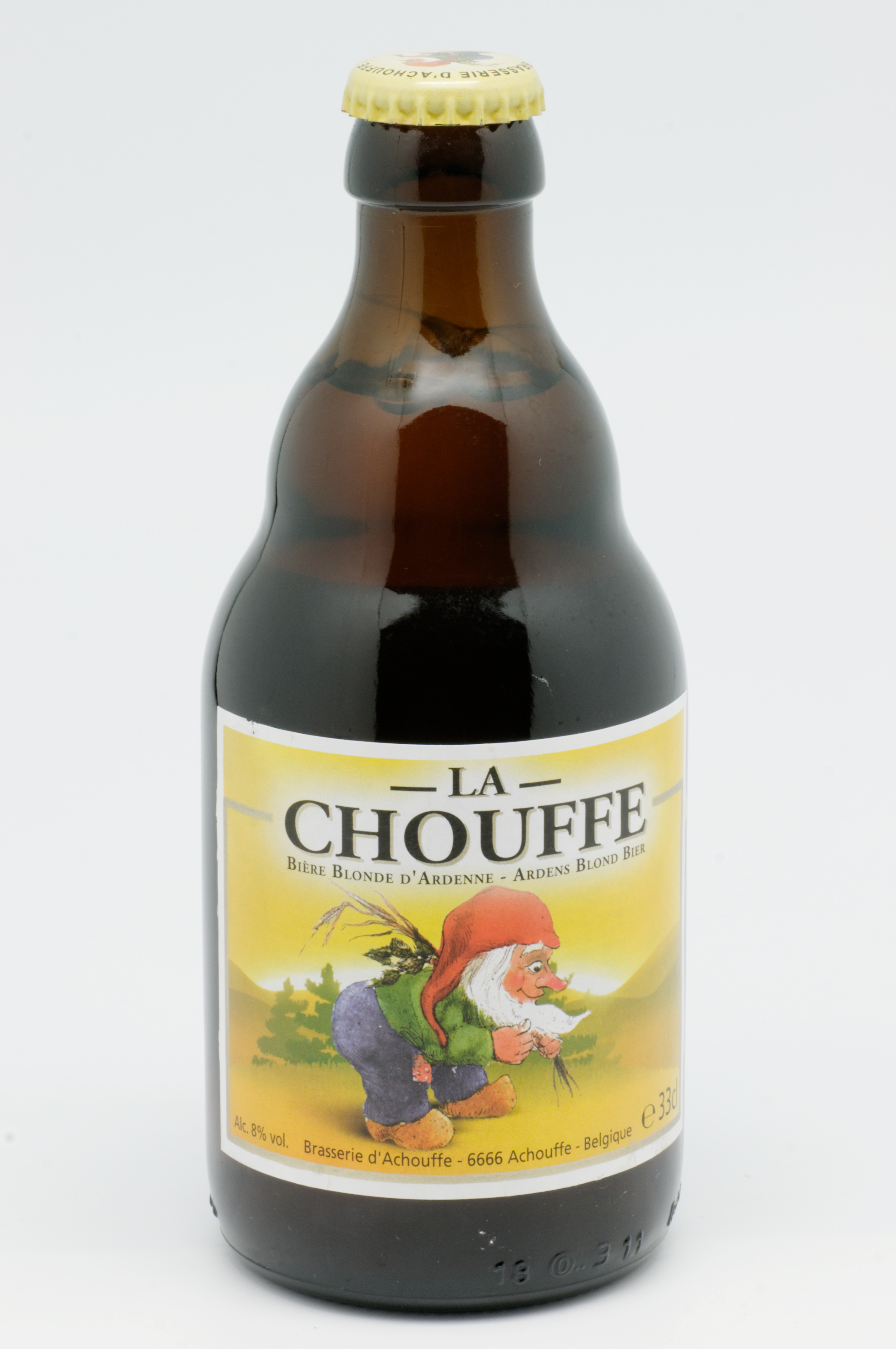 A bottle of La Chouffe.